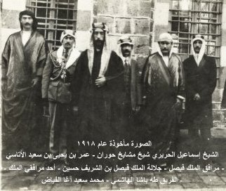 Hamid_Bin_Ahmad_Al-Rifaie.